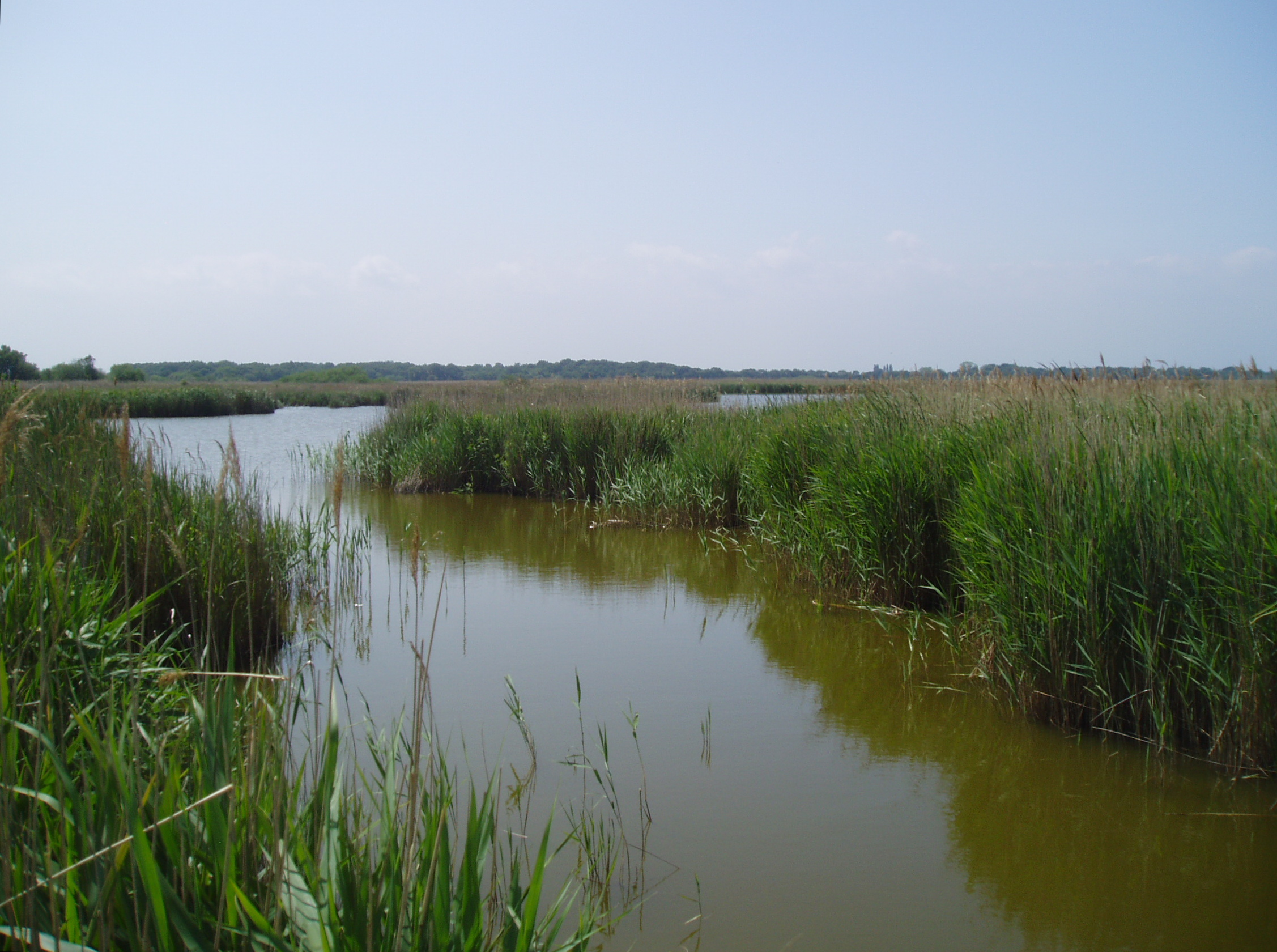 A view of Hickling Broad in early summer